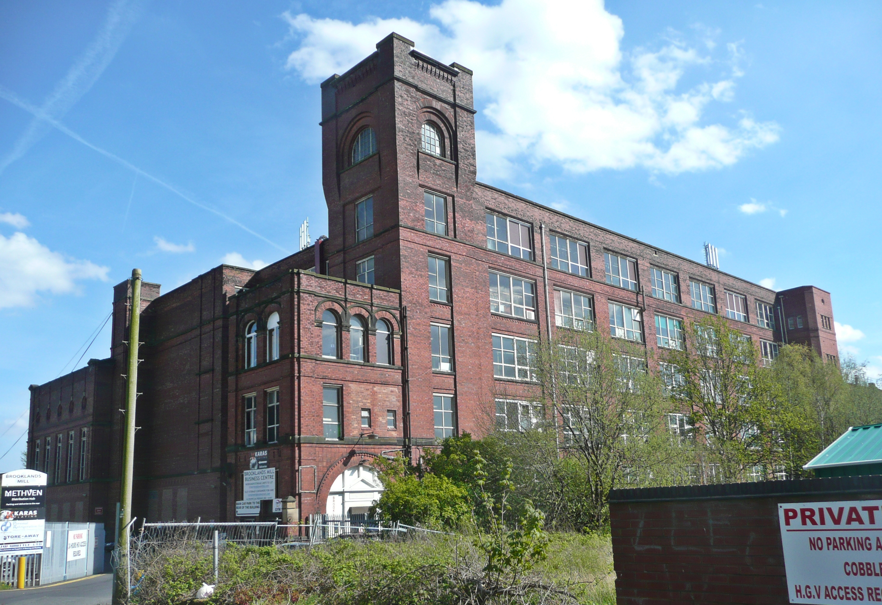 Brooklands Mill (Mather Mill No 3), Leigh, Wigan